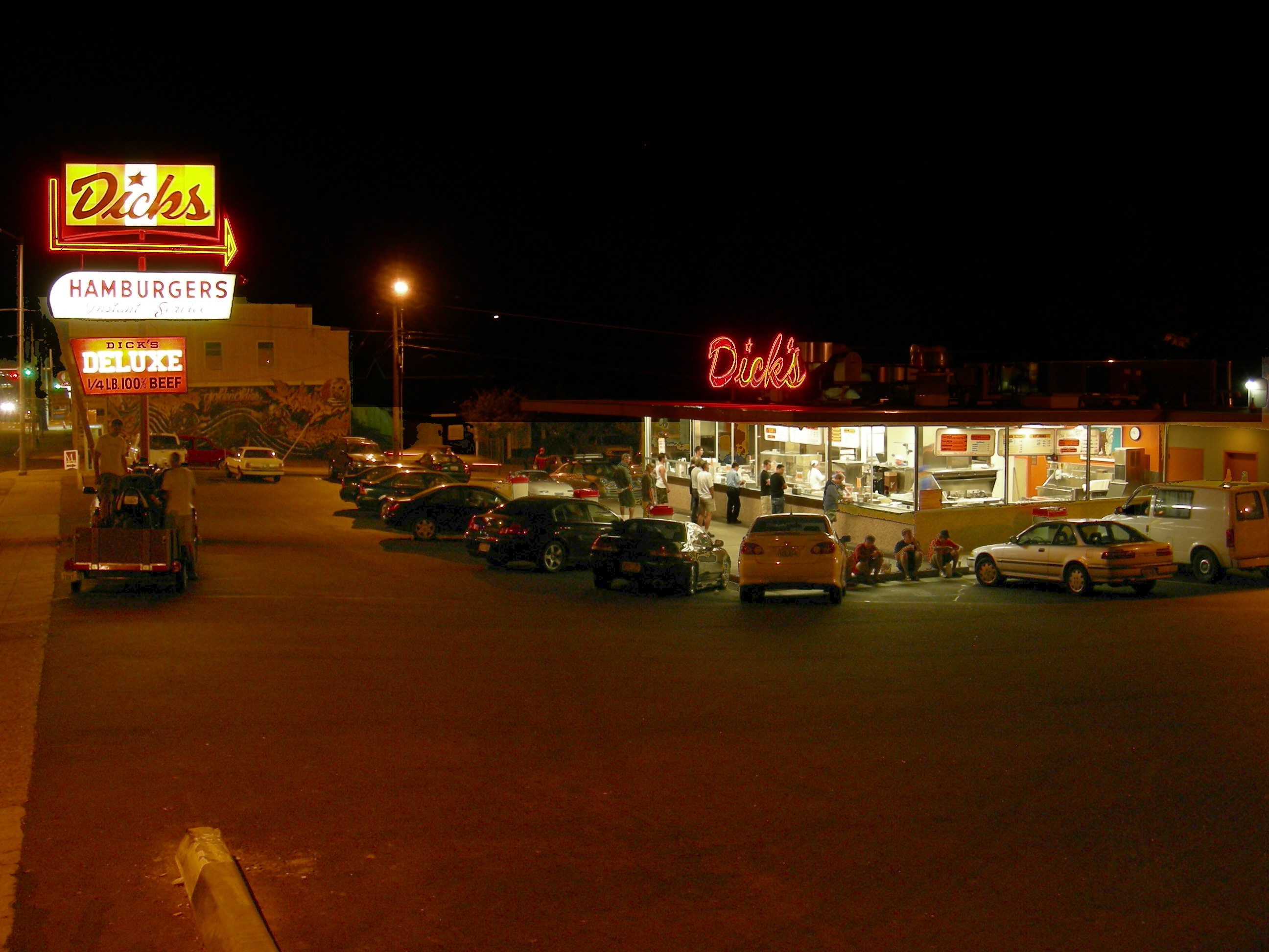 Dick's Drive-In on N. 45th St. in Wallingford, Seattle, Washington at night. The rotating sign shows the "Dick's" side.